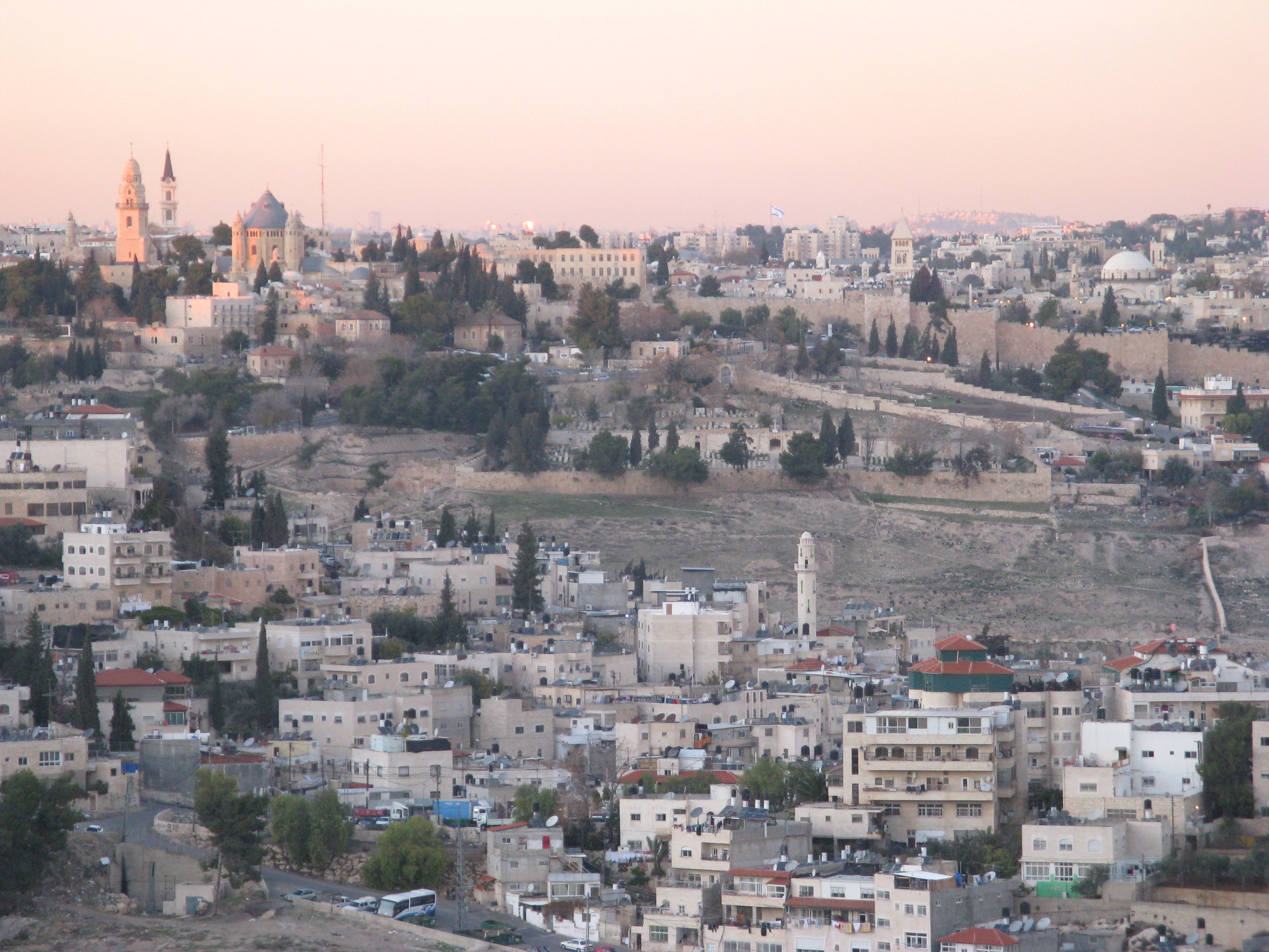 Tower of David, Dormition Church, St. Saviour Church (Jerusalem), Lutheran Church of the Redeemer, Hurva Synagogue, Mosque.